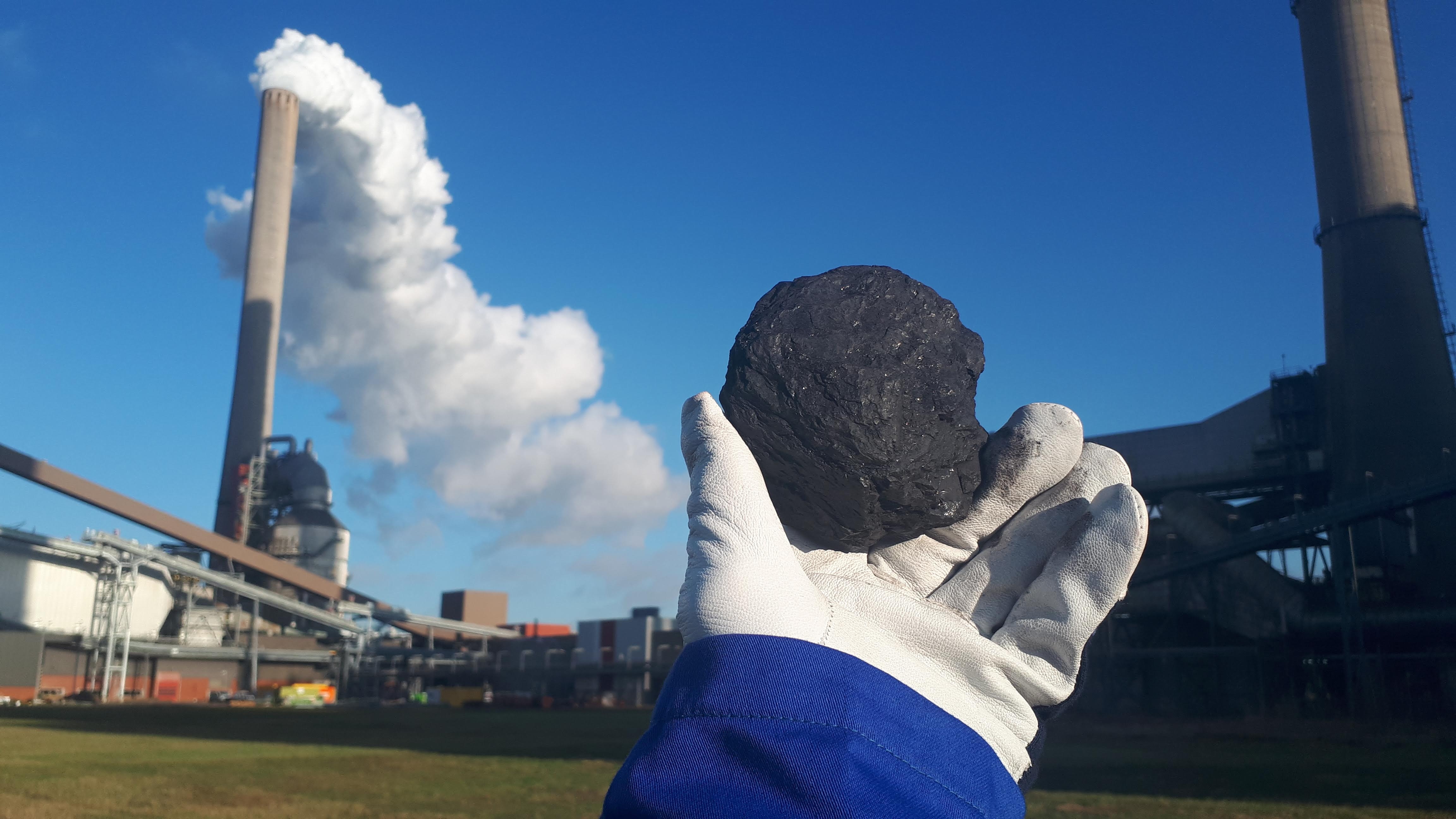 Worker holding up a piece of coal in front of a coal firing power plant in the Netherlands.